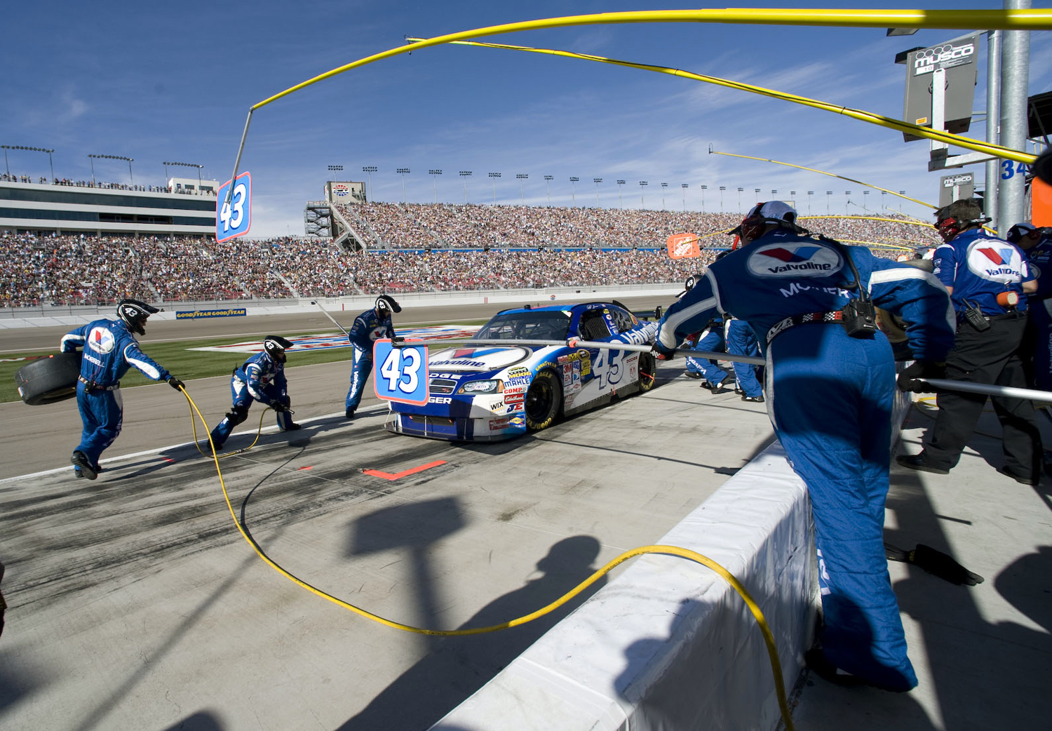 Reed Sorenson pulls into the pits on lap 61 of the Shelby 427 race March 1 at the Las Vegas Motor Speedway. Mr. Sorenson, driver of the No. 43 Air Force sponsored Dodge, finished the race in 34th place after spinning in turn two on lap 138. (U.S. Air Force photo/Master Sgt. Jack Braden)